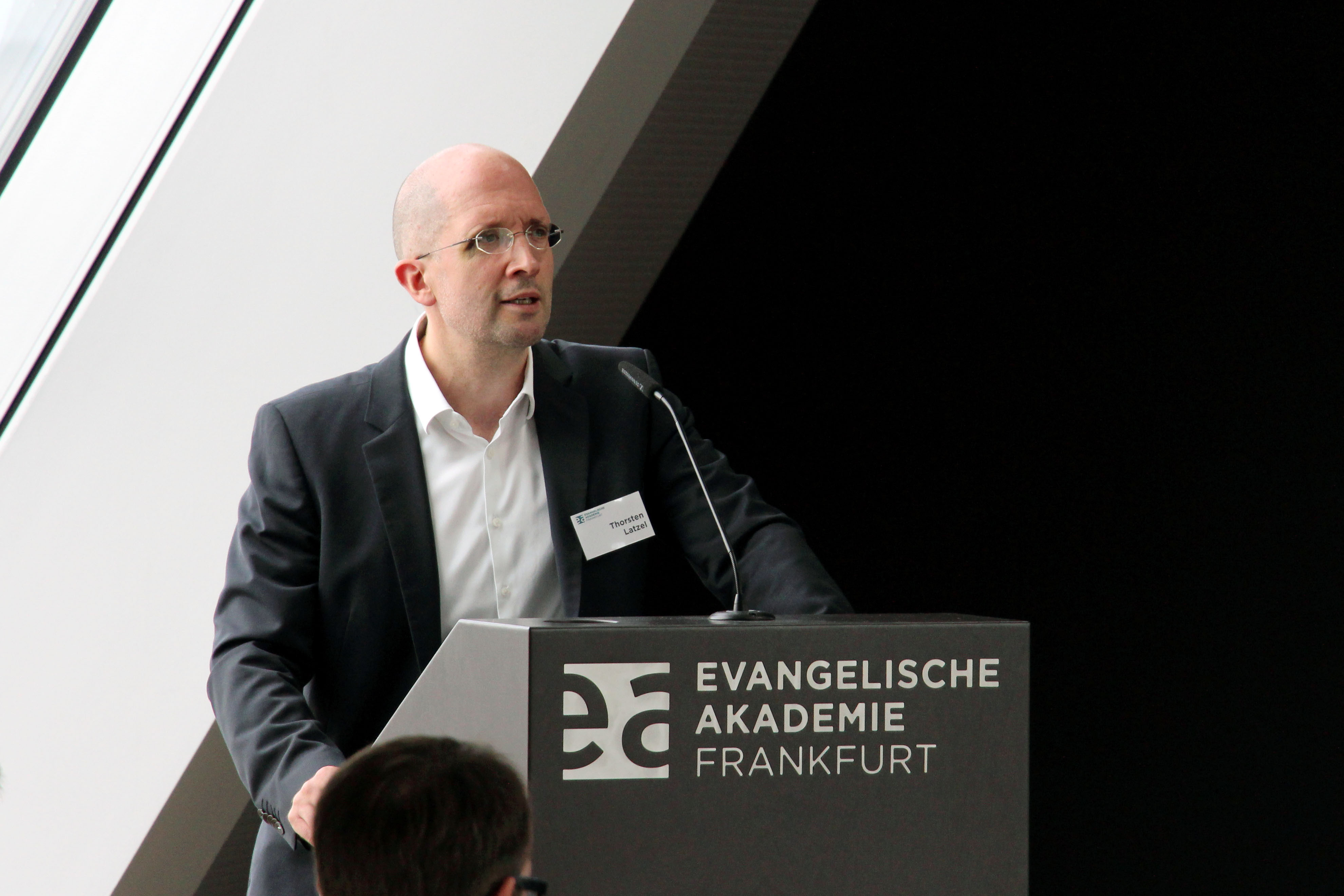 Theologian Thorsten Latzel, Director of the Evangelical Academy Frankfurt